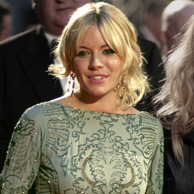 Sienna Miller at the 2007 BAFTAs